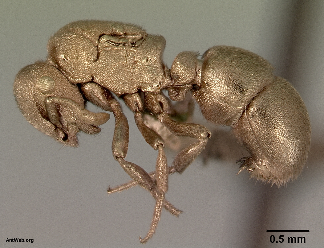 Profile view of ant Aulacopone relicta specimen casent0172182. Note: The golden color is not natural. This specimen has been "sputter coated" with gold to be used in scanning electron microscopy (SEM).